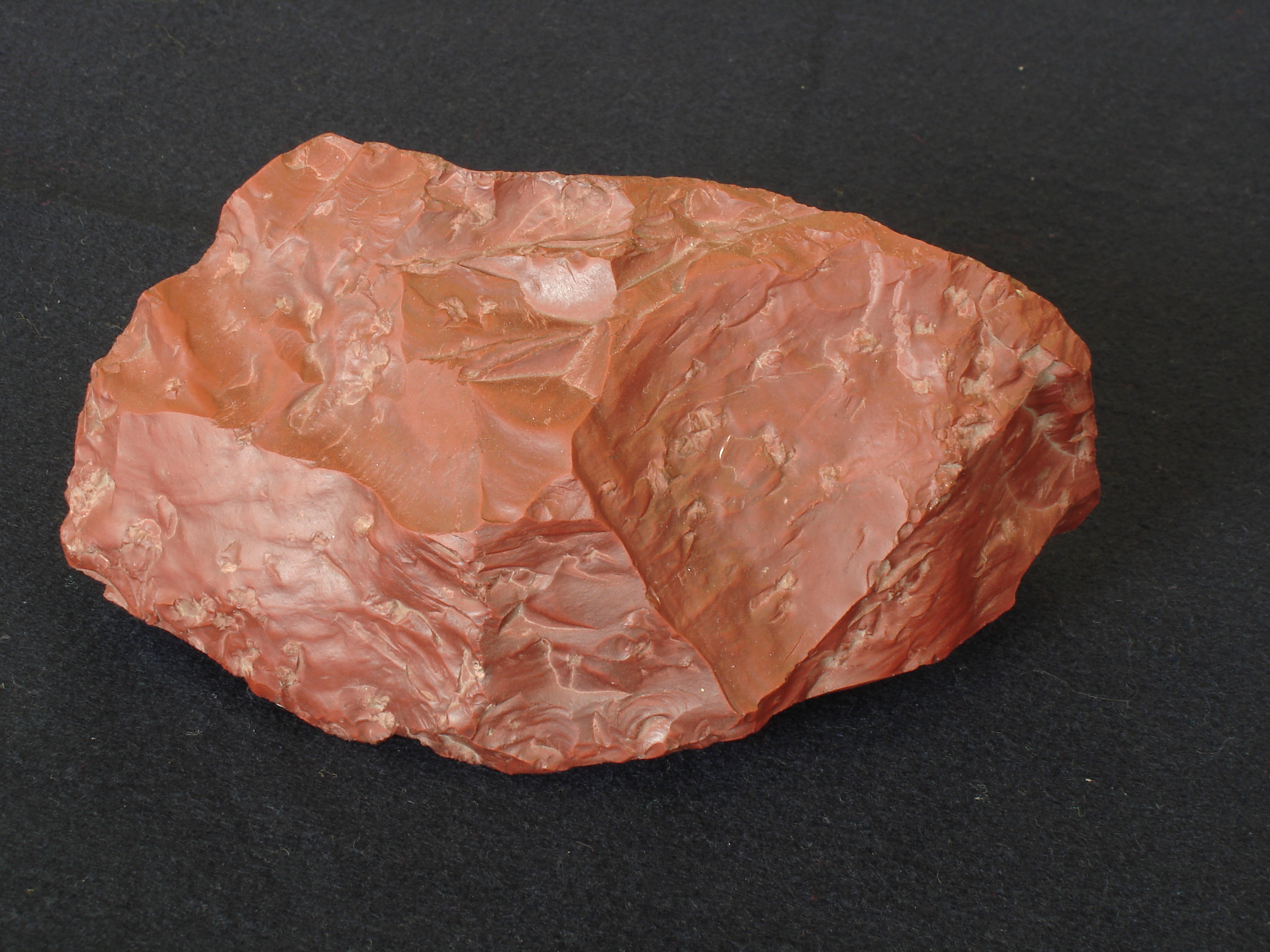 A fragment of jasper, a red amorphous silicaOrigin: Brazil